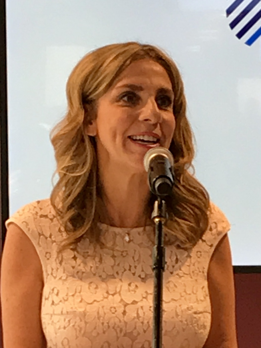 Nicola Mendelsohn during the launch ceremony at Przestrzeń from Facebook, ul. Koszykowa 61, Warsaw, Poland, 2018-05-22. Photo crop.